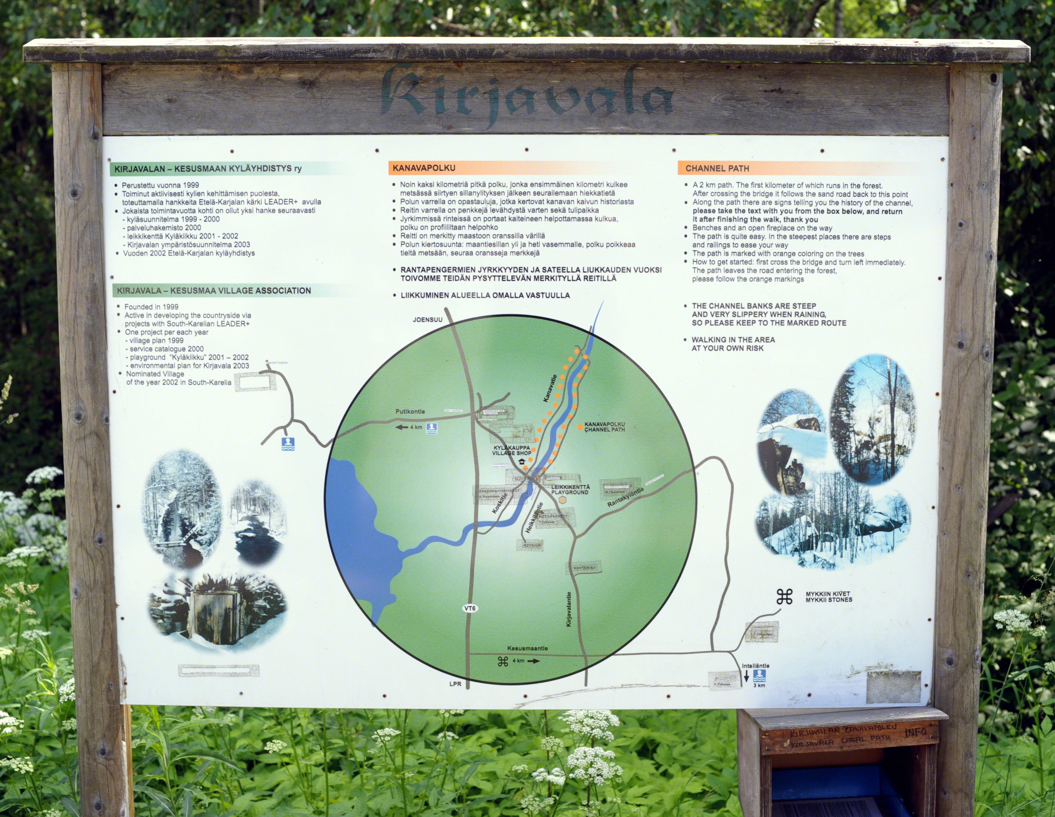 Kirjavala Channel 7/2011